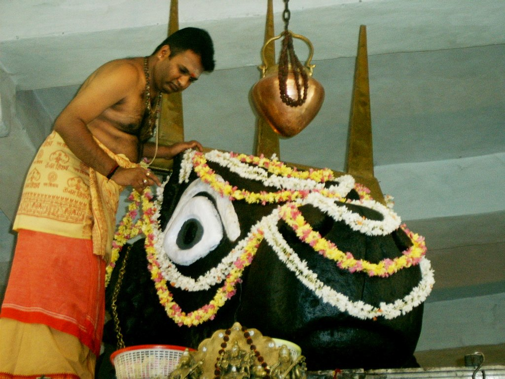 Hindu priest in Karnataka. Original description: Here's a priest placing long garlands of freshly picked flowers on the head of this massive statue of Shivas bull Nandi. The statue is carved out of a single rock.Priest in Bull Temple